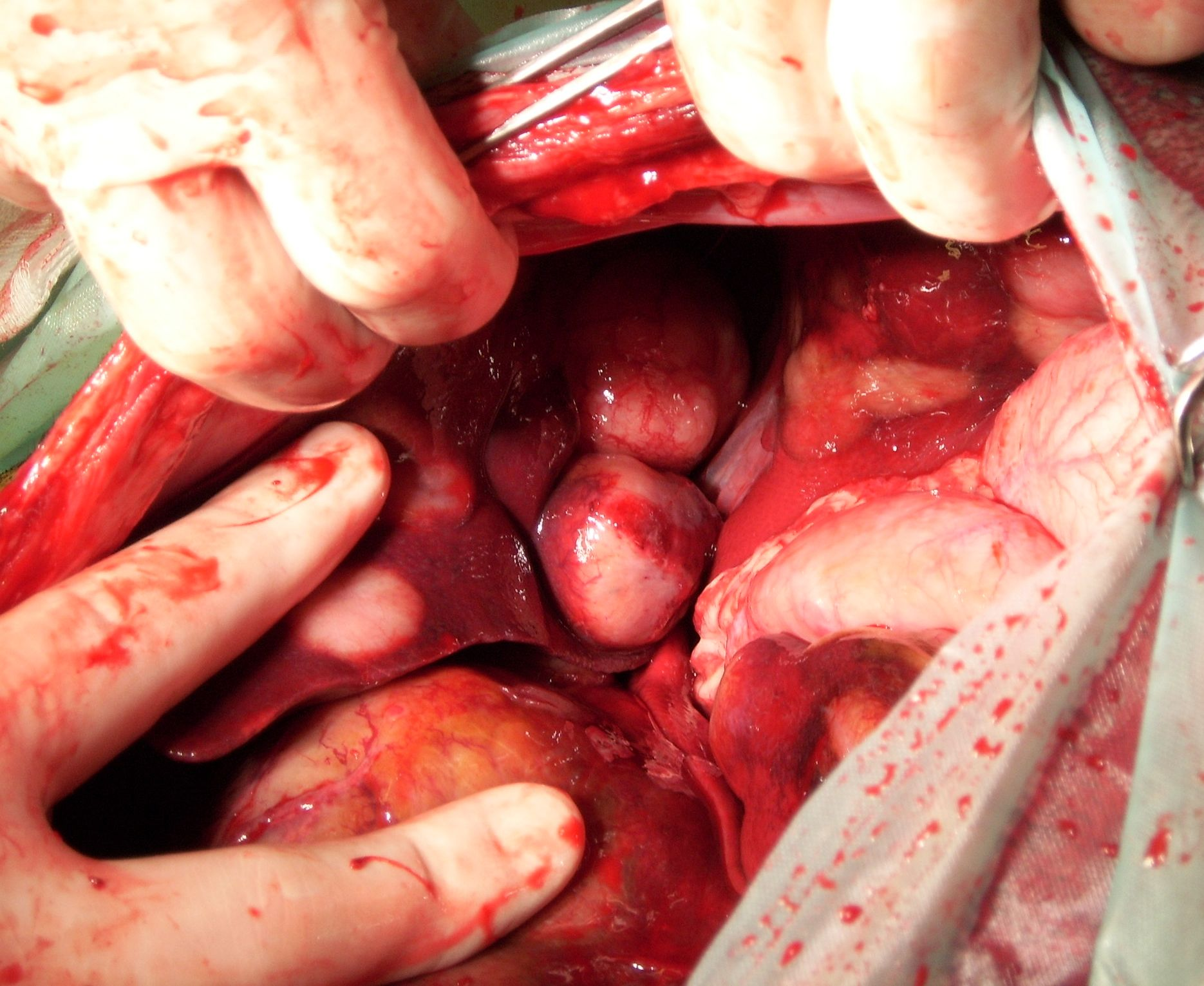 liver metastases of a spleen tumor, OP Situs in a dog